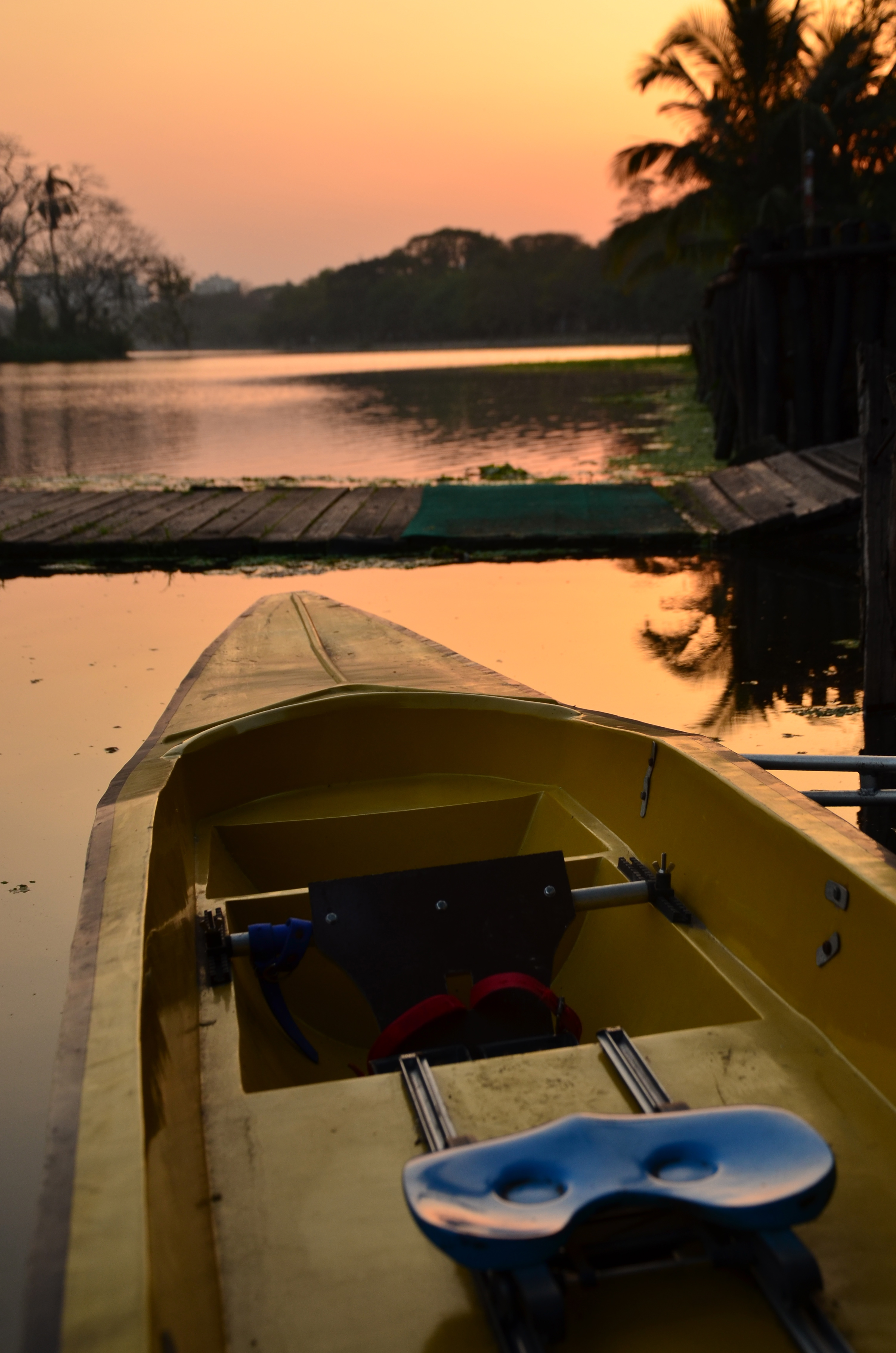 wiki boat BRC